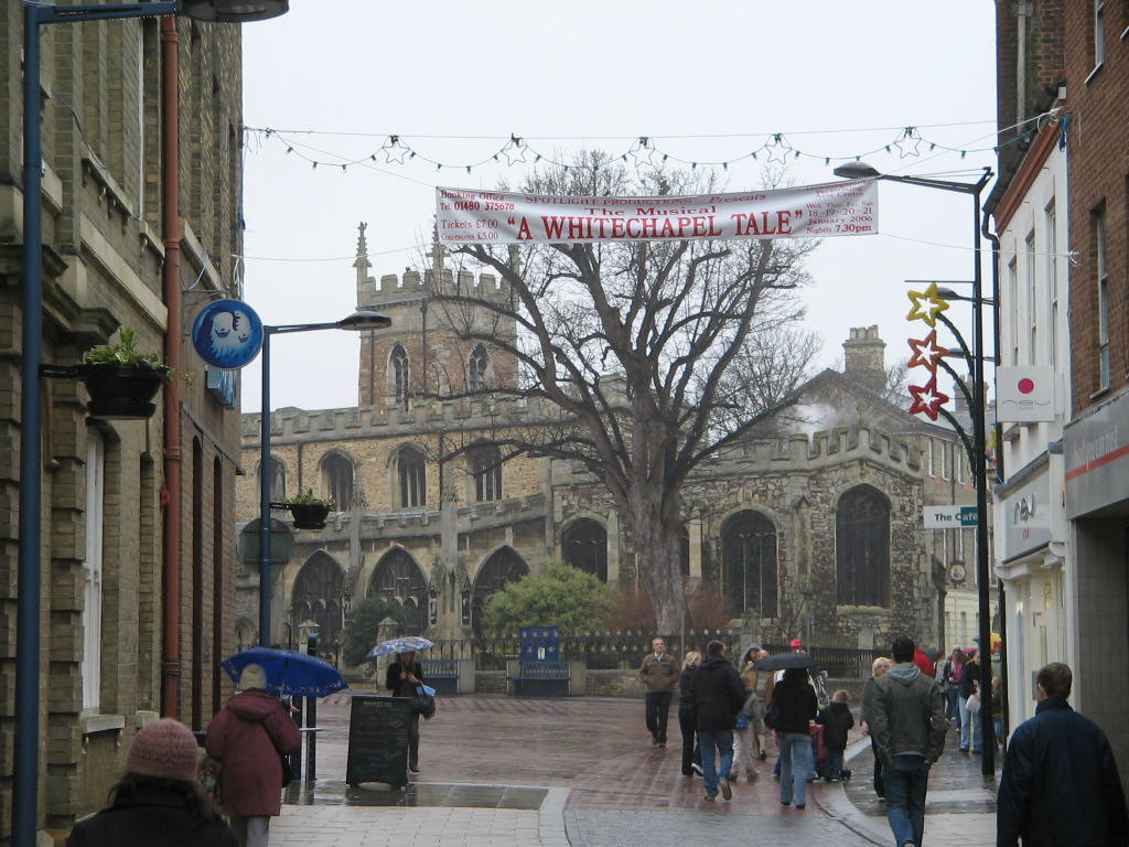 The town centre of Huntingdon, Cambridgeshire, UK, looking North along the High Street and showing All Saints' Church on the Market Square